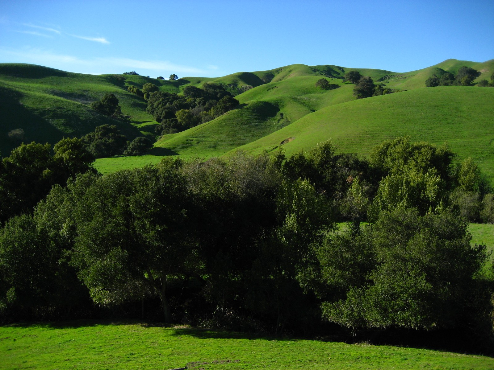 Lafayette Ridge at Briones Regional Park. In the East Bay Regional Parks District, San Francisco Bay Area. Contra Costa County, California. Author: Yamin B. (19 Feb 2007)